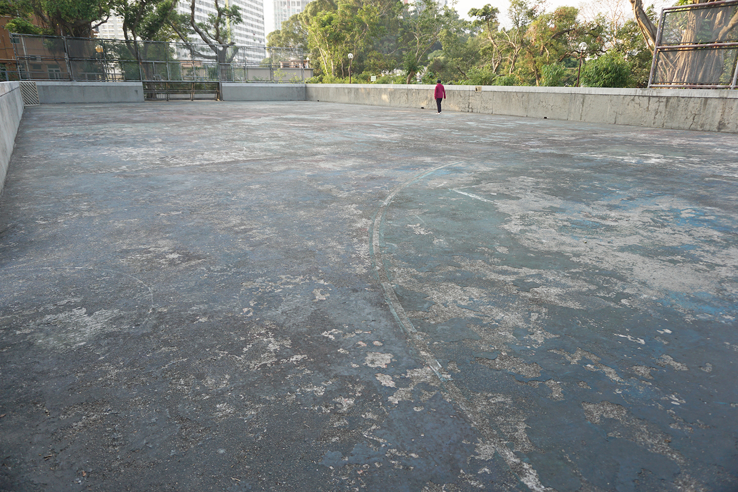 Fung Shing Court in Sha Tin Tau, Hong Kong.